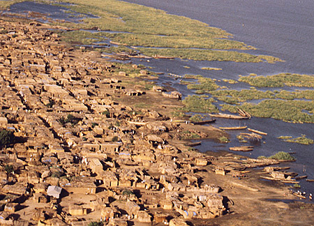 A town on the shores of Lake Chad in Cameroon, 1989.